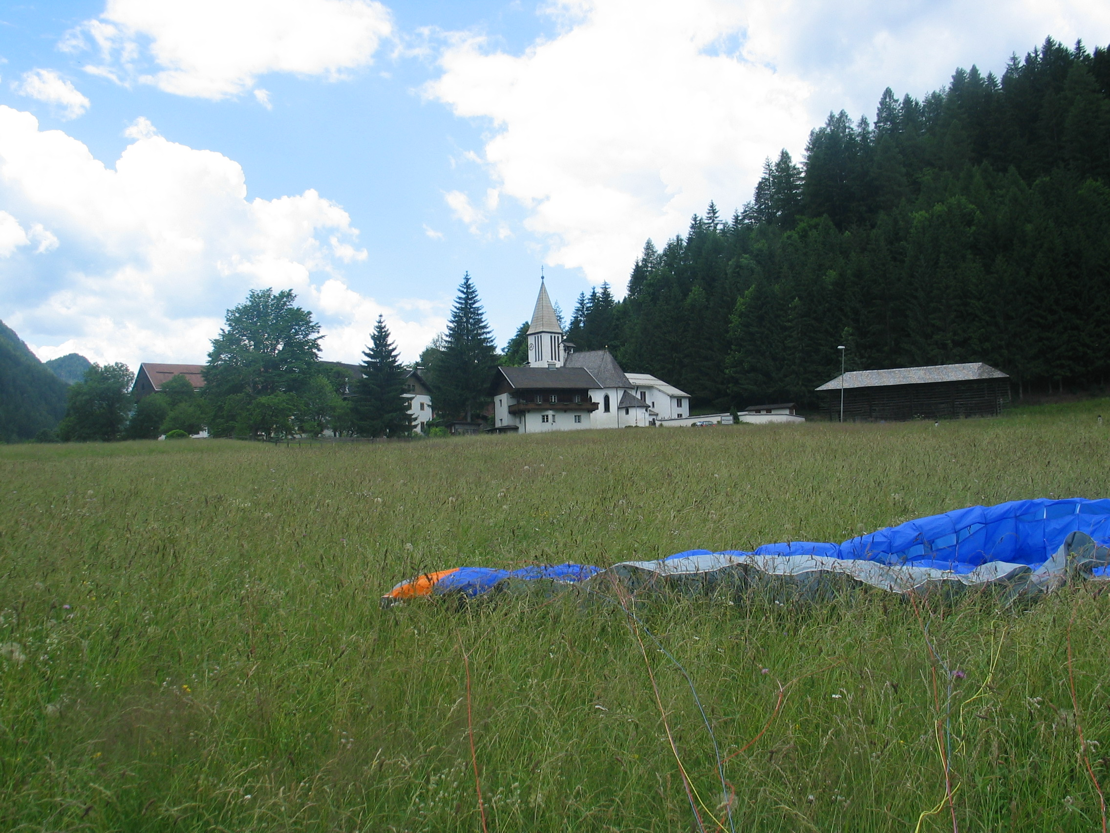 Paraglider off-field landing.